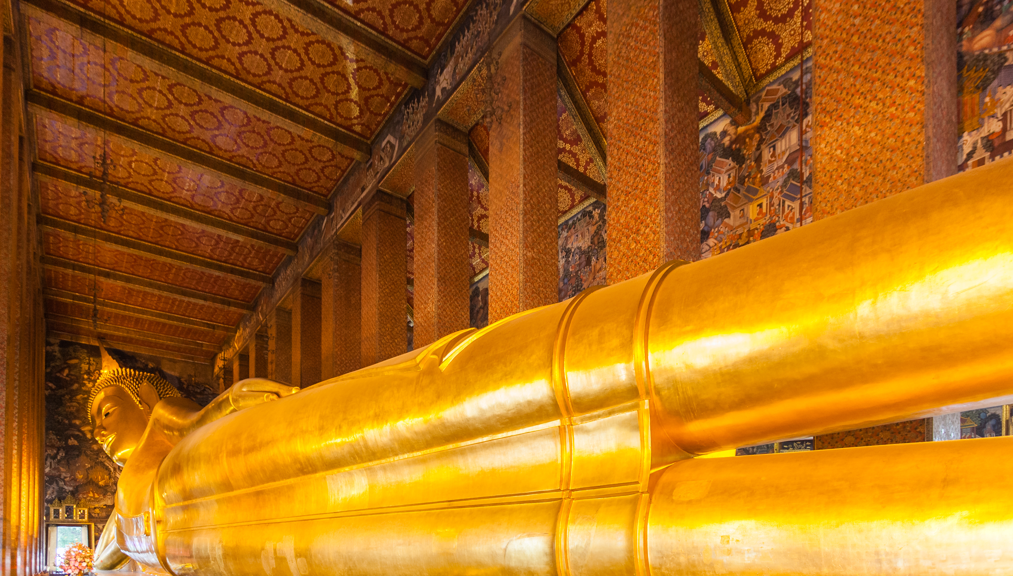 Reclining Buddha statue, Wat Pho, Bangkok, Thailand